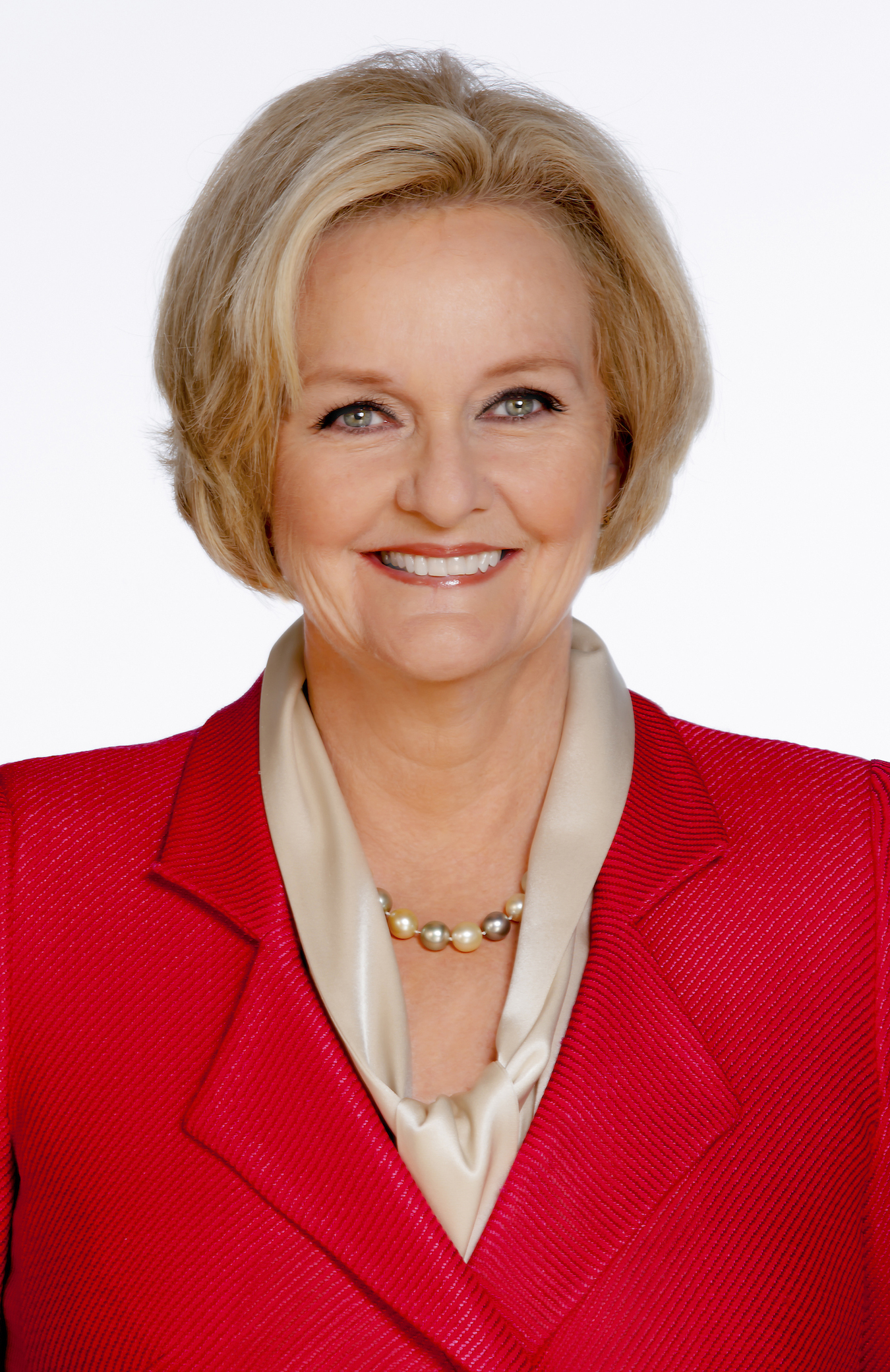 Senator Claire McCaskill's official photo from the 113th Congress